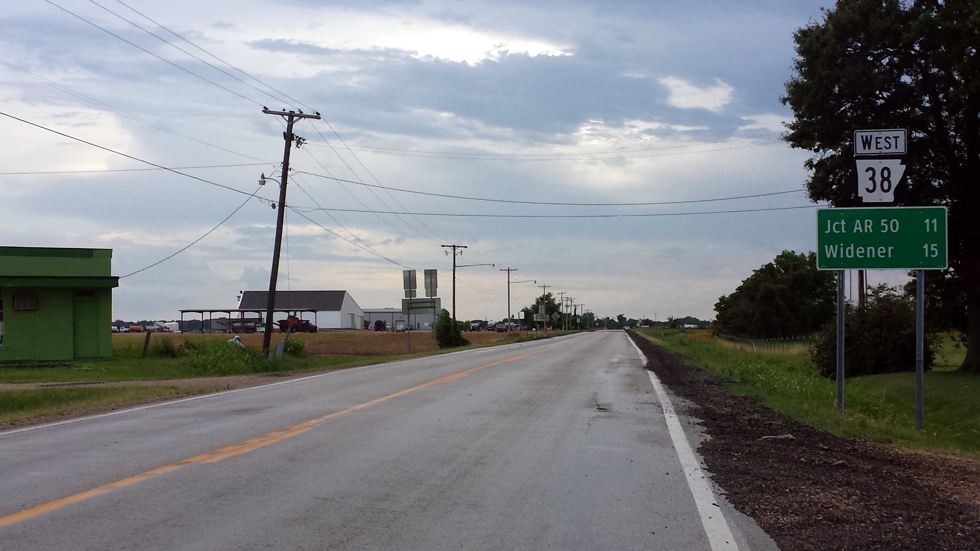 Highway 38 near US 79 in Hughes, AR